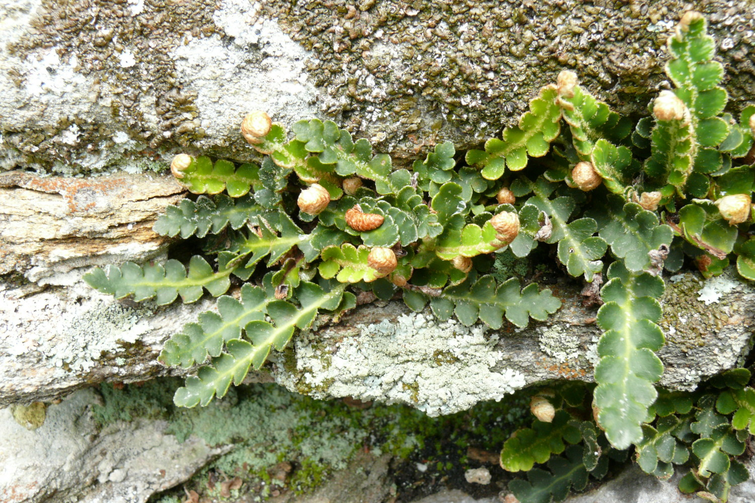 Asplenium ceterach, Photo from Thasos